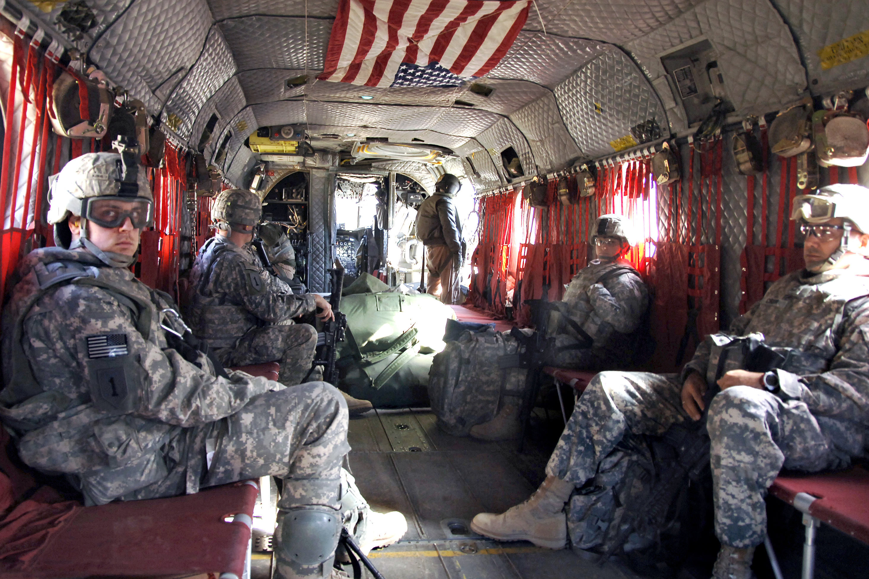 Soldiers from various units in Afghanistan ride on a Chinook during a re-supply mission on 30 Nov 08 on FOB Fenty Afghanistan. The mission was to bring supplies to the outlaying FOB's in Eastern Afghanistan. See more at Army.mil (US Army Photo by SSG Carrie Fox-Gutierrez)